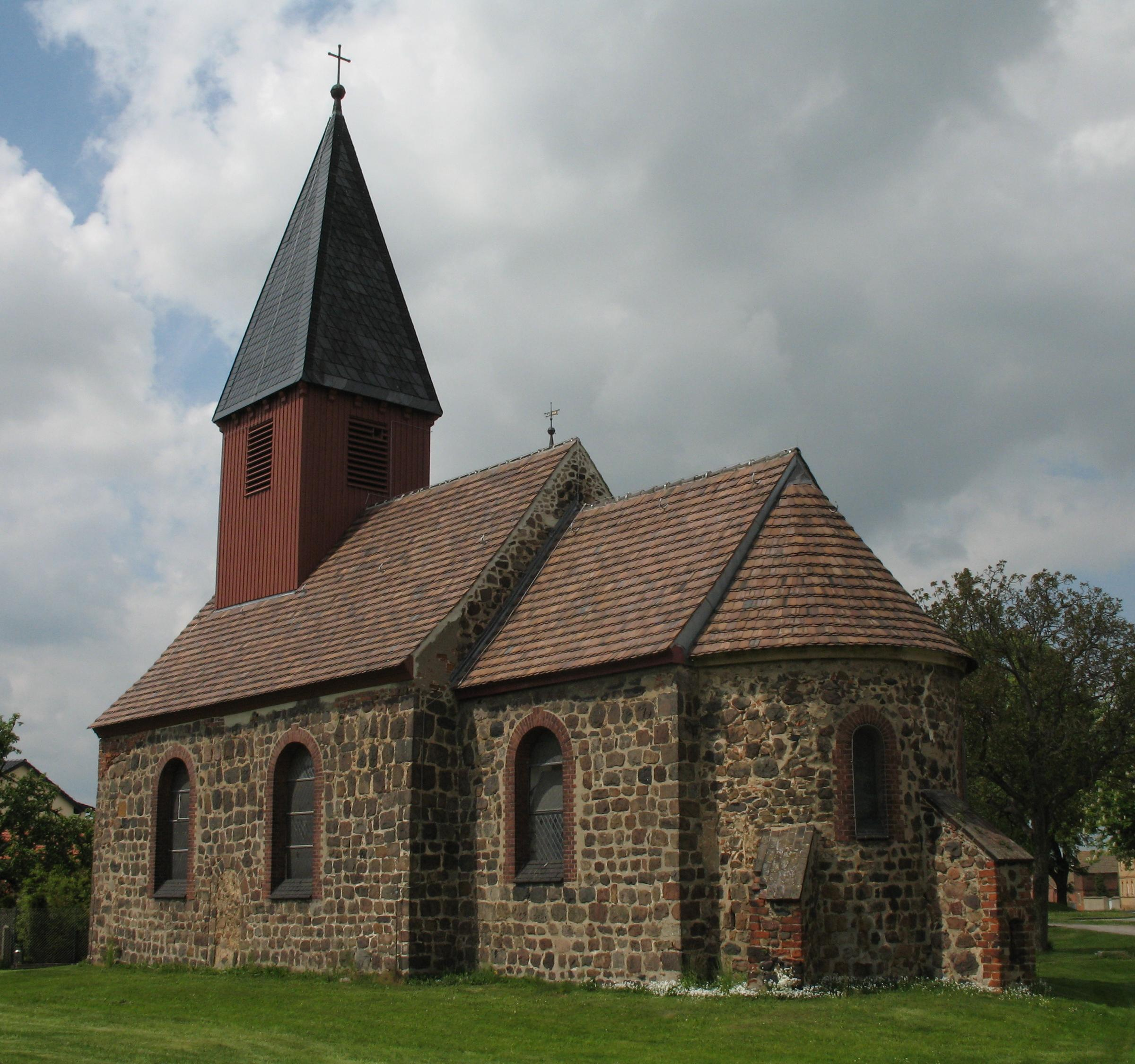 Church in Niedergörsdorf-Mellnsdorf in Brandenburg, Germany